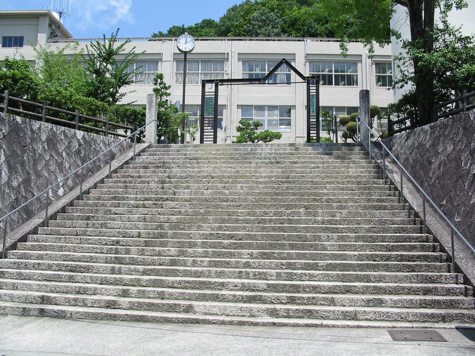 Kibi International University Junior College (Former Junsei Junior College) in Takahashi, Okayama.